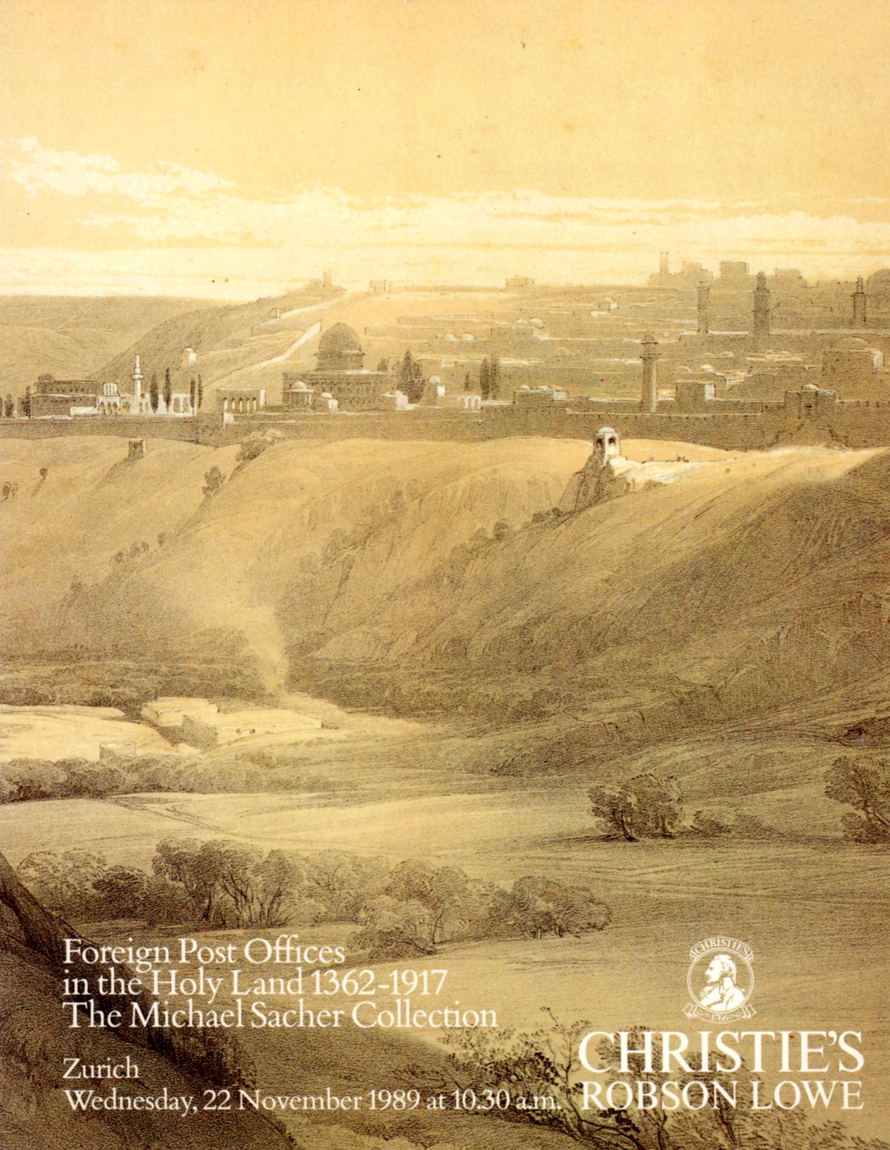 Foreign Post Offices in the Holy Land 1362-1917 The Michael Sacher Collection. Christie's-Robson Lowe, London, 1989. Cover shows print dated to 1839 on reverse of book.